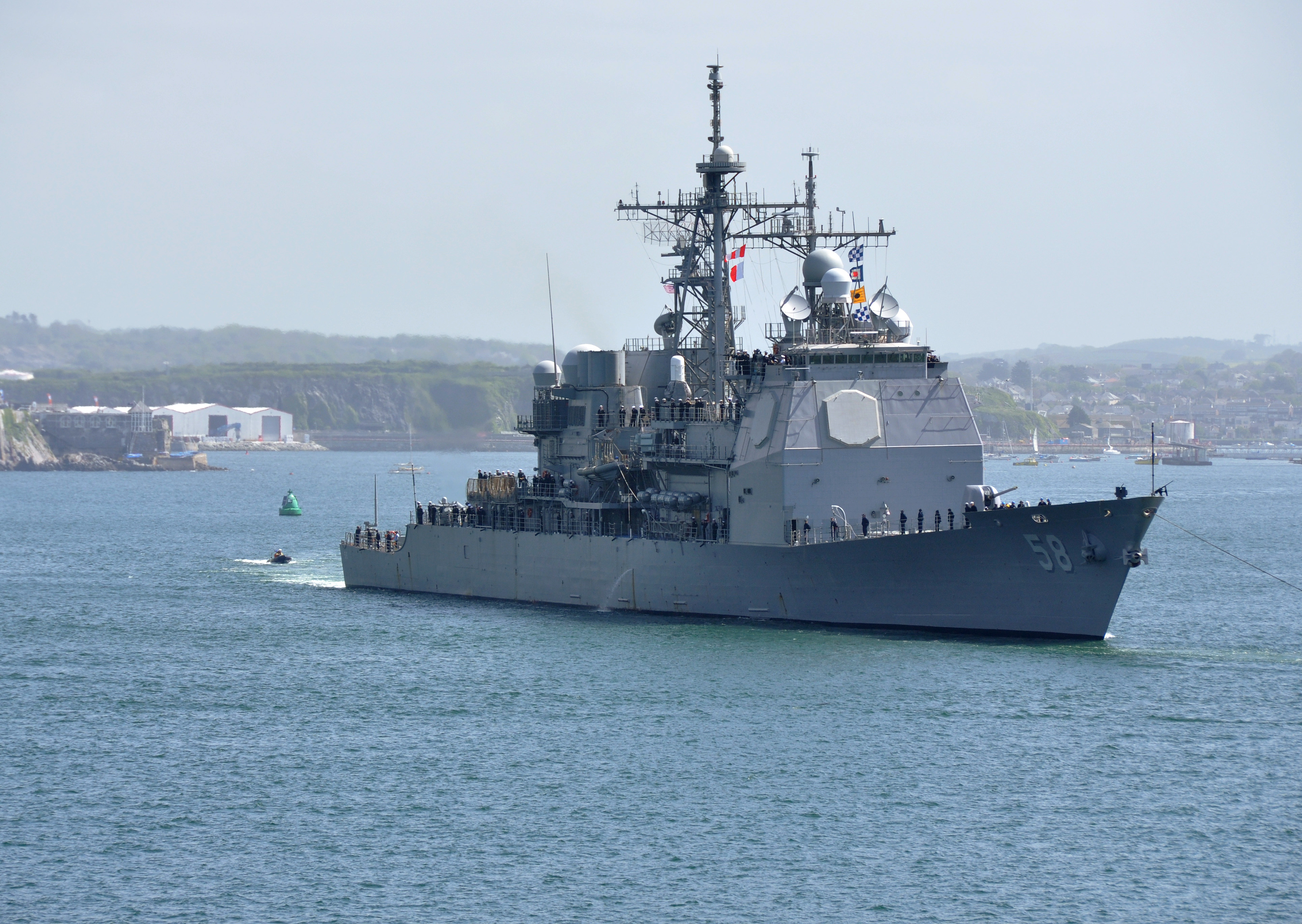 USS Philippine Sea (CG-58) in Plymouth Sound, UK, for a courtesy visit to the port.